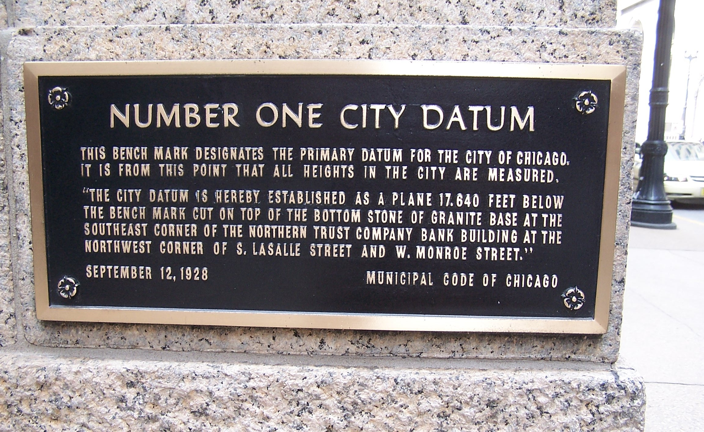 Chicago City Datum Plaque. This bench mark designates the primary datum for the city of Chicago. It is from this point that all heights in the city are measured. "The City Datum is hereby established as a plane 17.640 feet below the bench mark cut on top of the bottom stone of the granite base at the southeast corner of the Northern Trust Company bank building at the northwest corner of South Lasalle Street and West Monroe Street" September 12, 1928 Municipal Code of Chicago